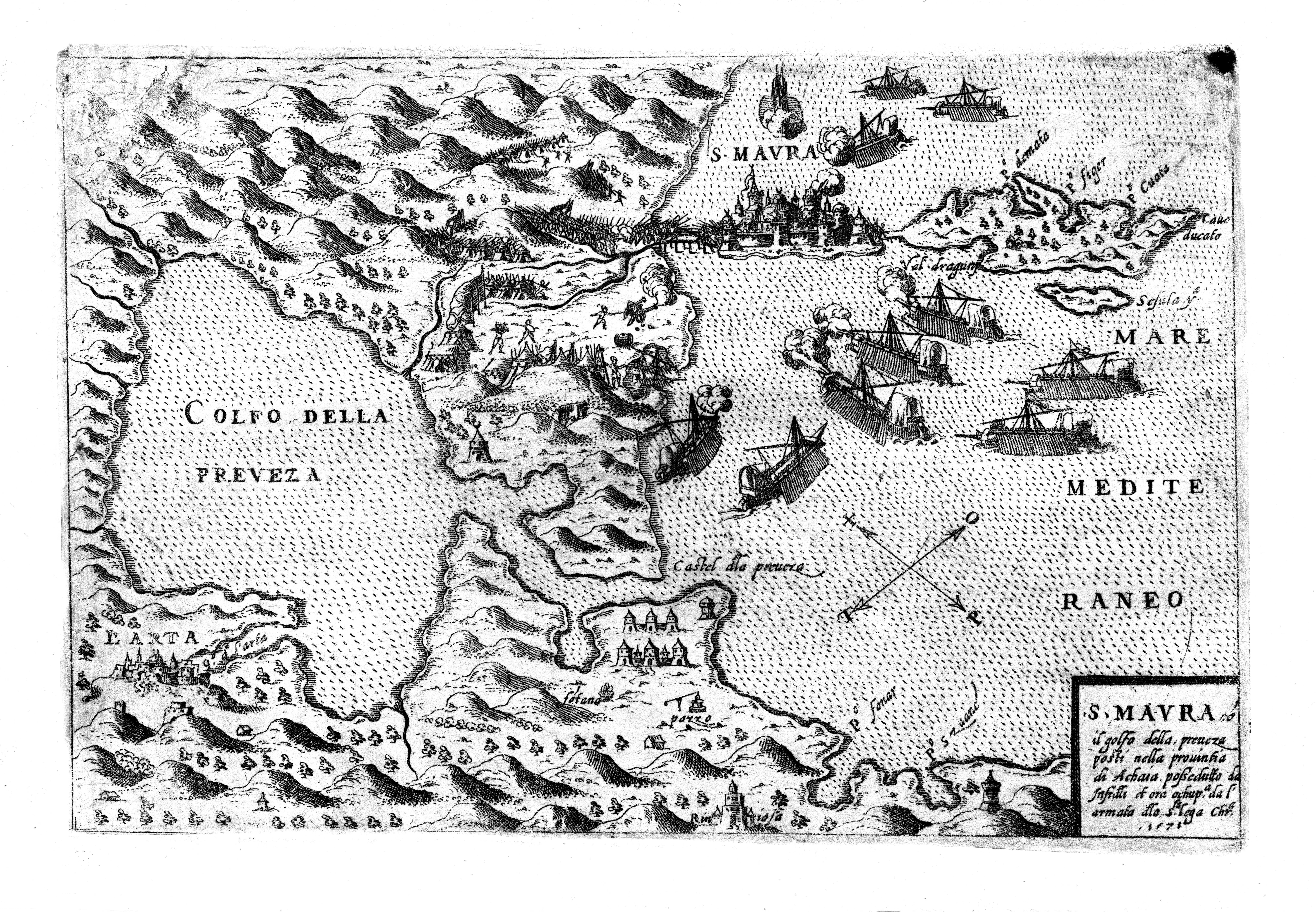 The island of Lefkas and the Gulf of Amvrakikos, after the sea battle of Lepanto, between the Ottomans and the Allied Christian Fleets. Copper engraving by Simon Pinargenti, 1571 c. Nikos D. Karabelas map collection, Actia Nicopolis Foundation, Preveza, Greece.